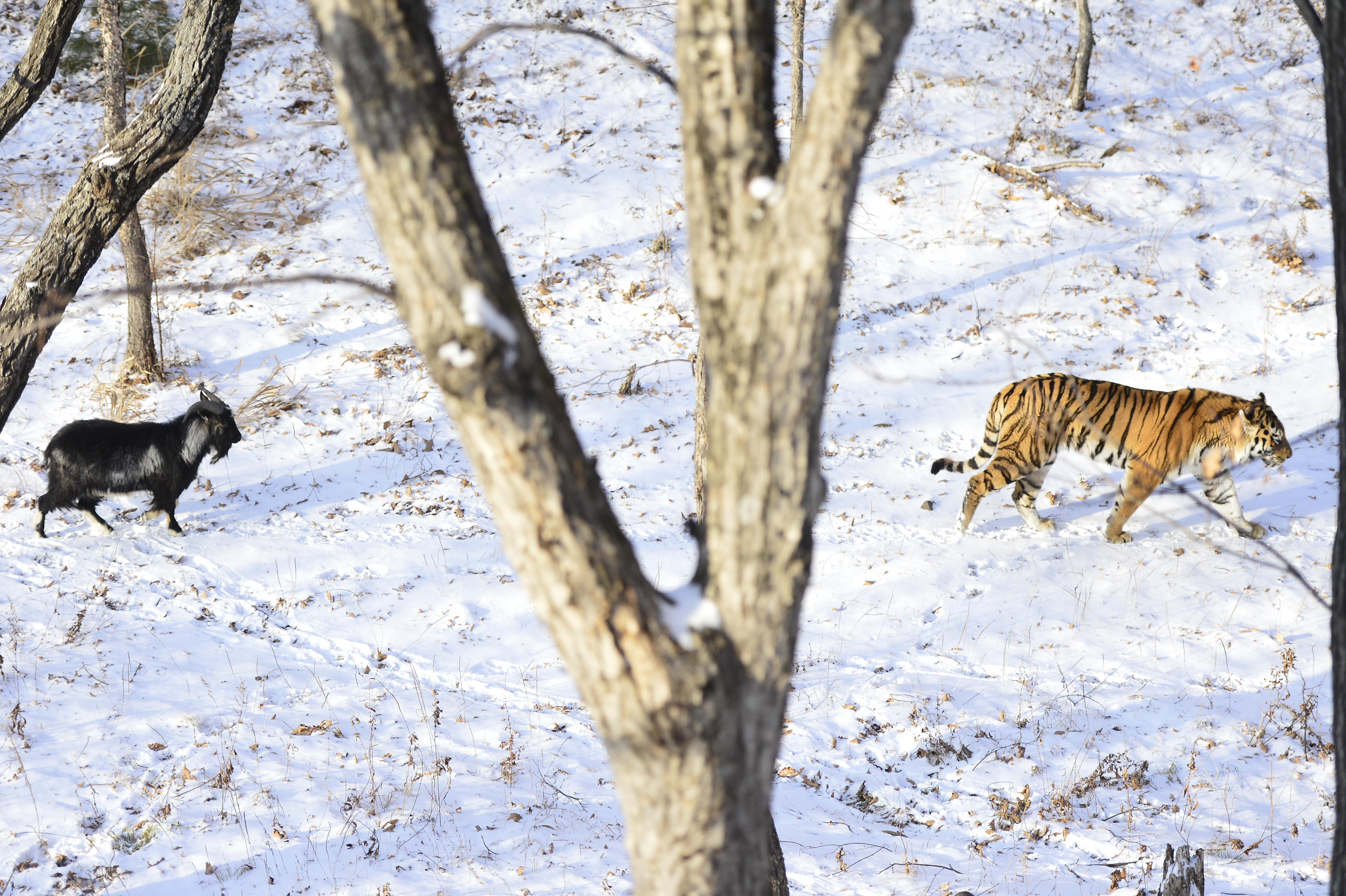 Amur and Timur